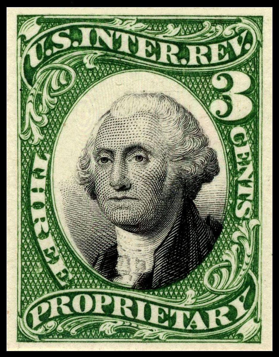 Image of Washington 3c Proprietary revenue stamp, issue of 1871